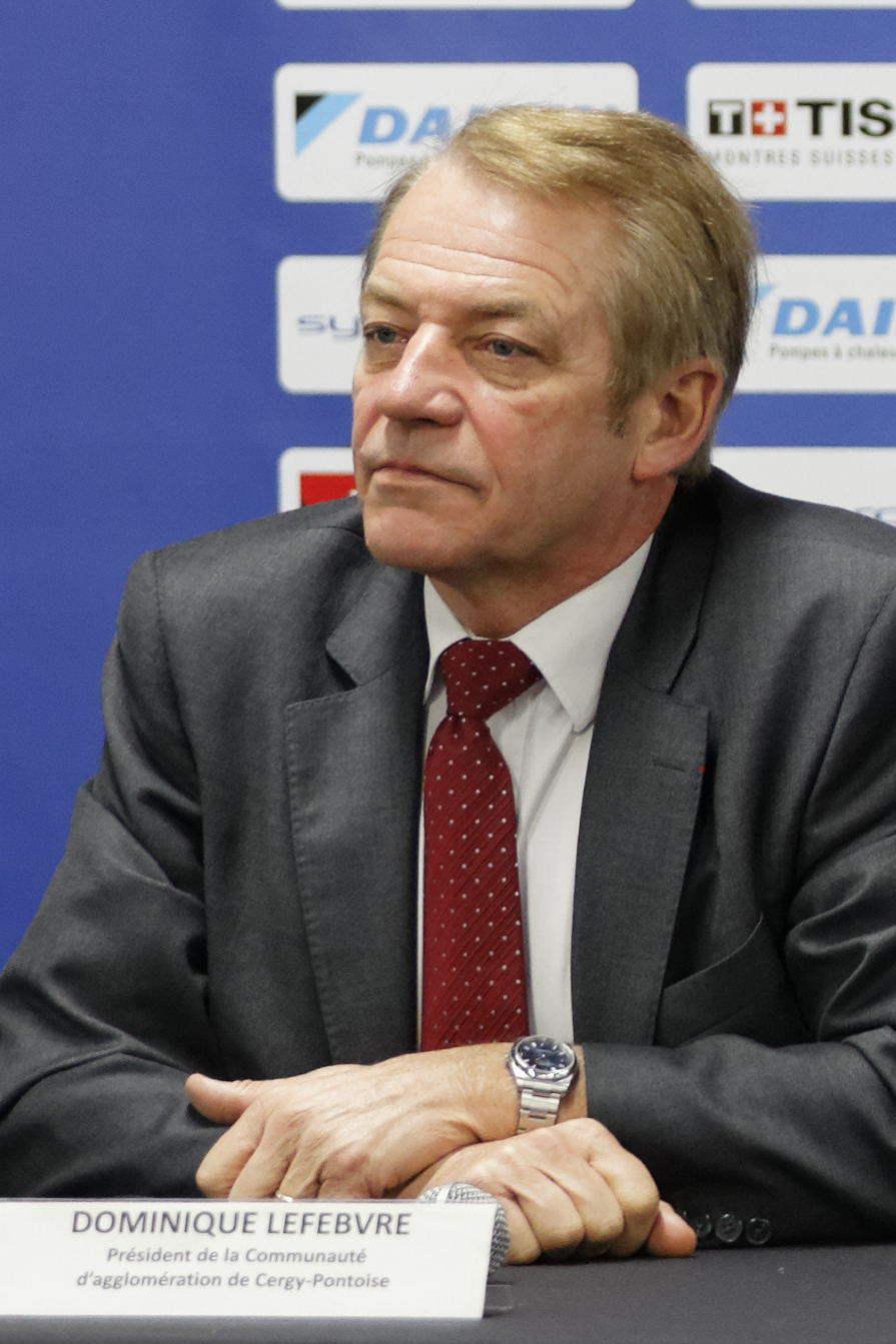 Dominique Lefebvre, president of the Agglomeration community of Cergy-Pontoise, during the press conference before the final of the Ice Hockey French Cup 2014.